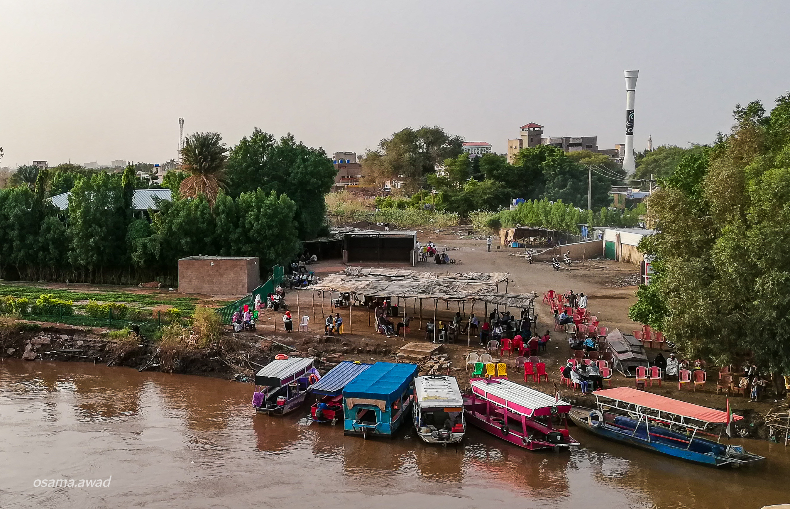 sdrتوتي This is an image with the theme "Africa on the Move or Transport" from: Sudan